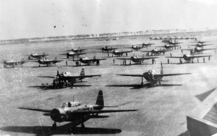 Kamikaze Special Attack Group, Kikusui Corps, Shiragiku Unit